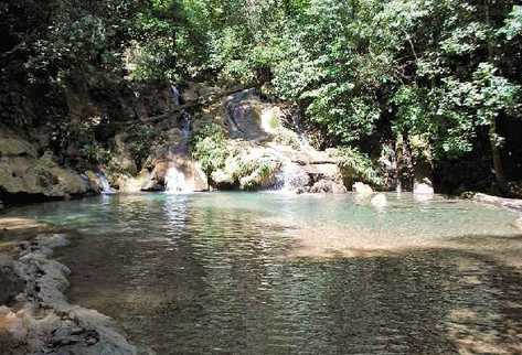 Poza turística